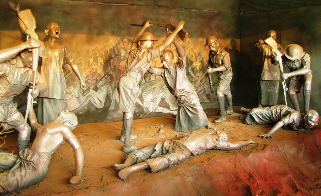 kavumbayi strugle ,kerala